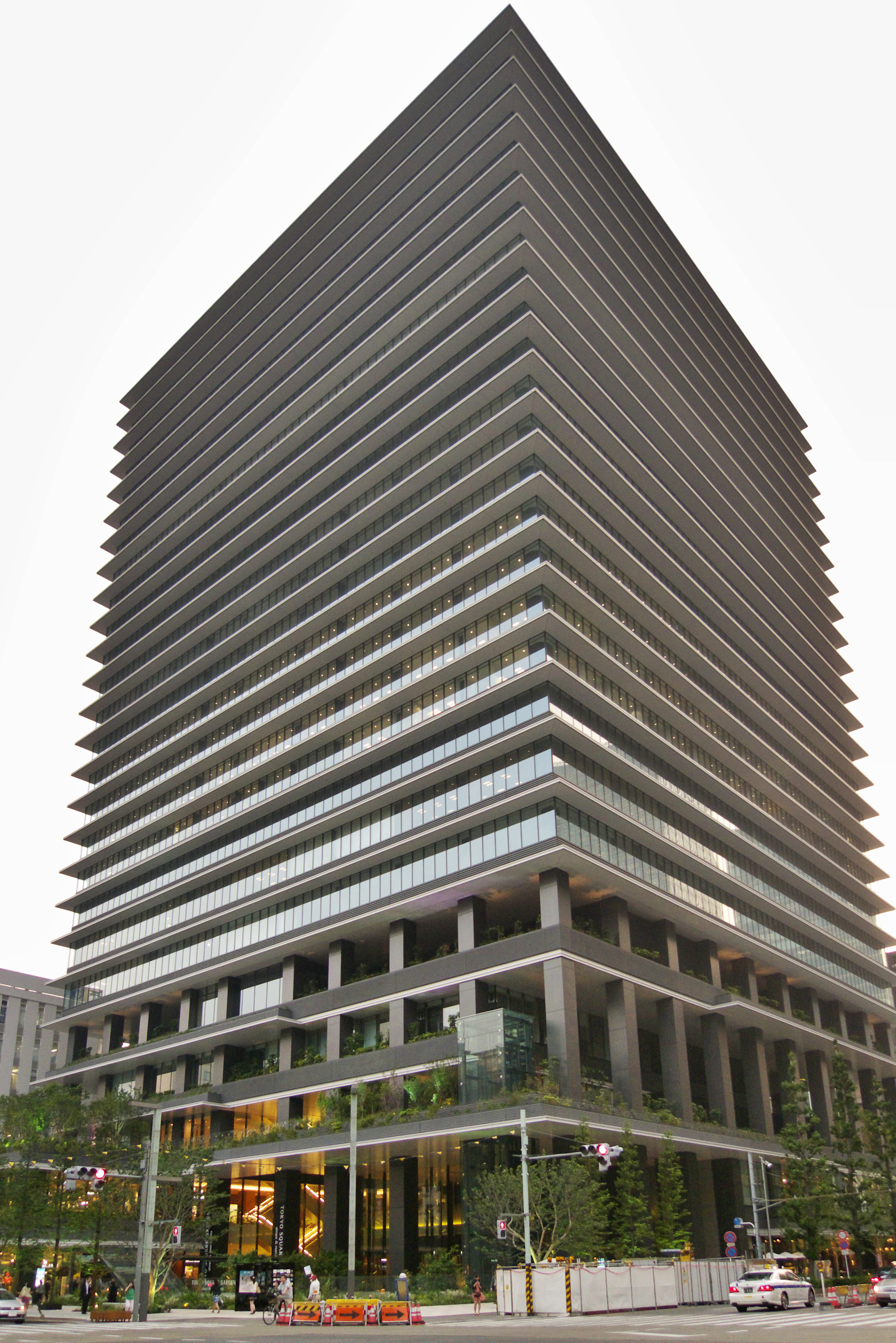 Tokyo Square Garden in Chuo Ward, Tokyo, Japan